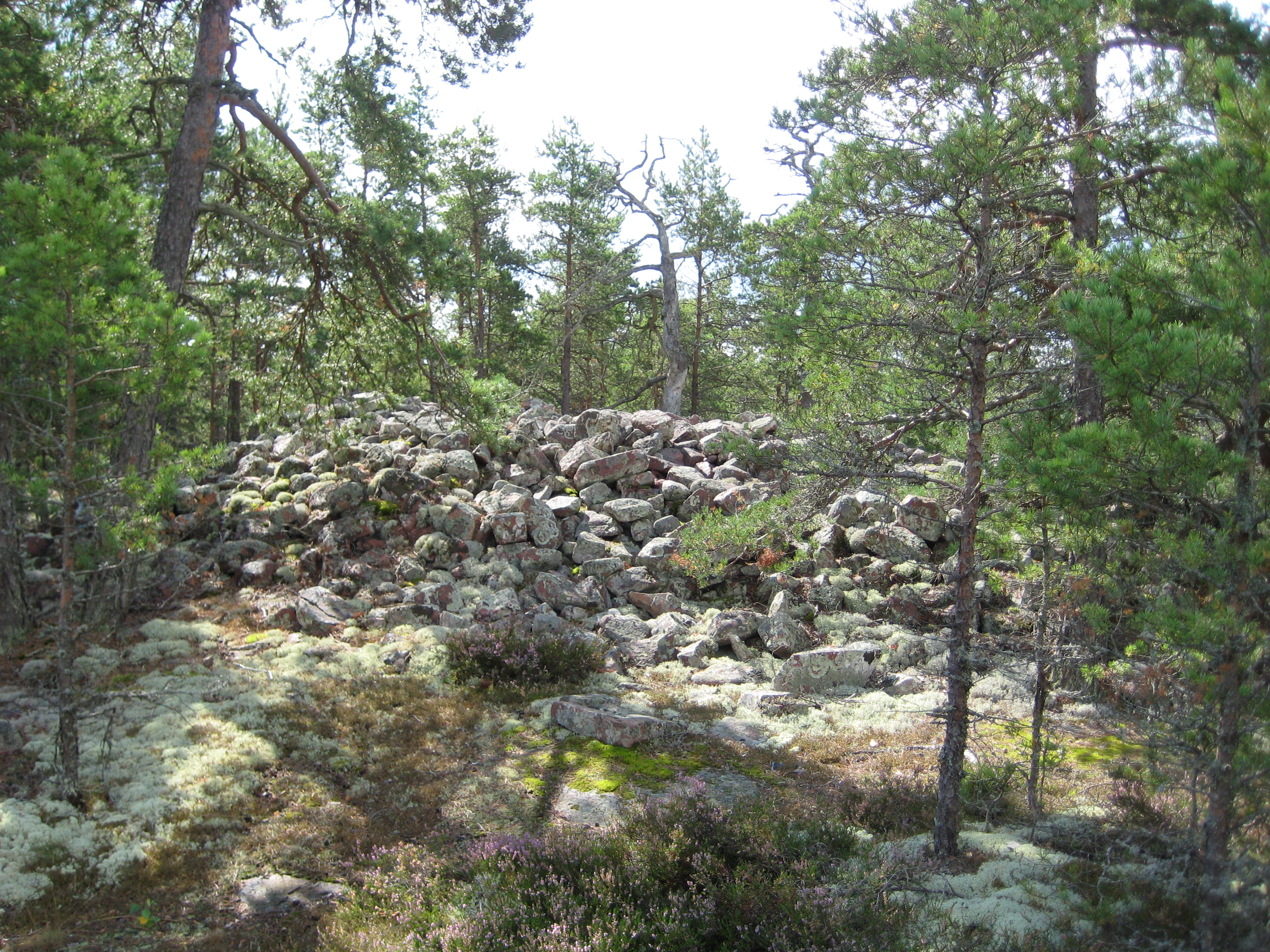 Iron age stone grave in Godby/Björkens, Finström municipality, Åland Islands, Finland.